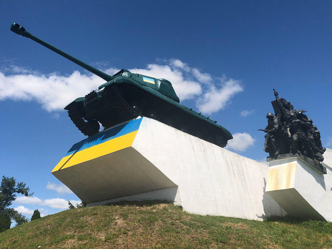 Tank IS-2 Dubno